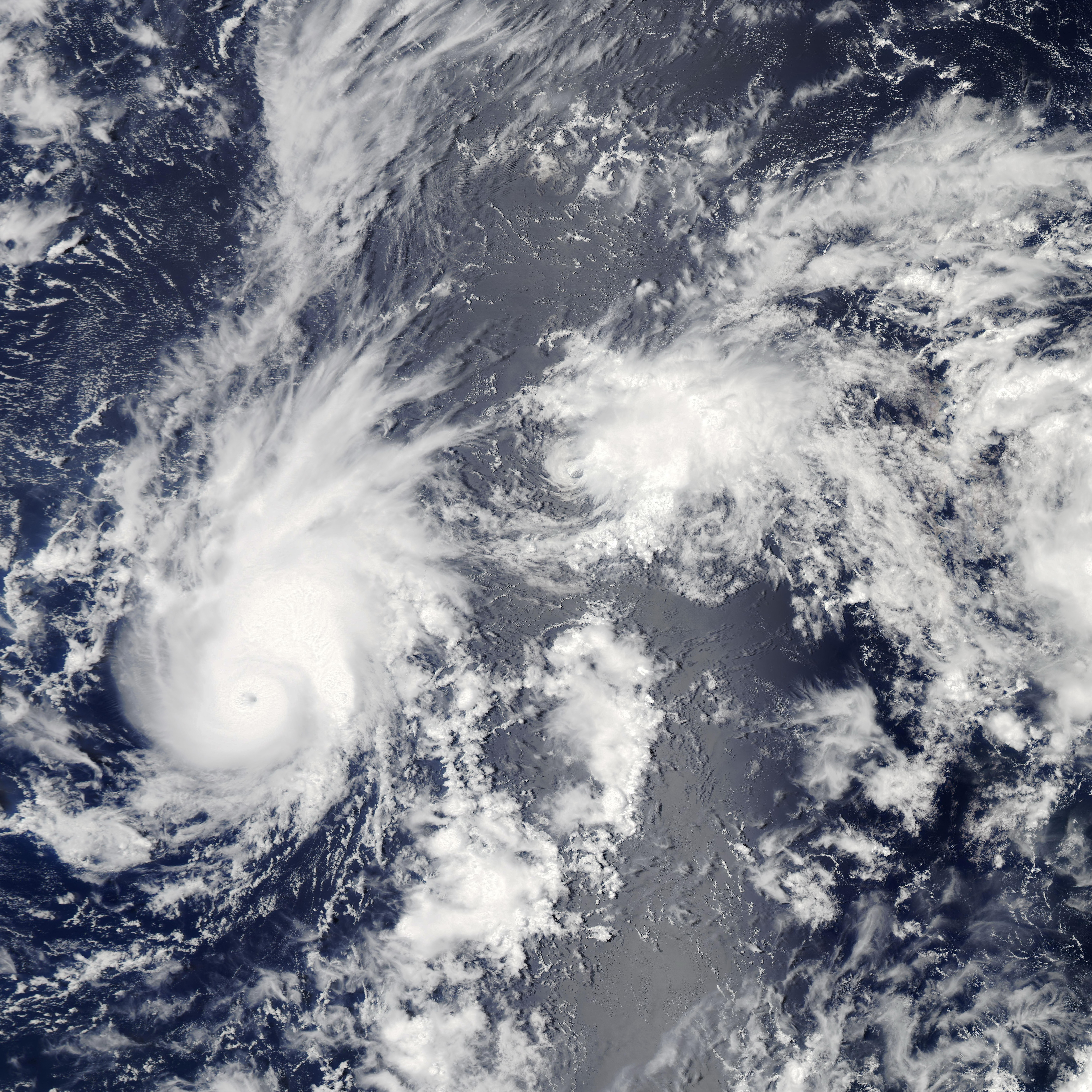 Typhoon Pewa (left) and Tropical Storm Unala (right) on August 18, 2013 on the International Dateline.